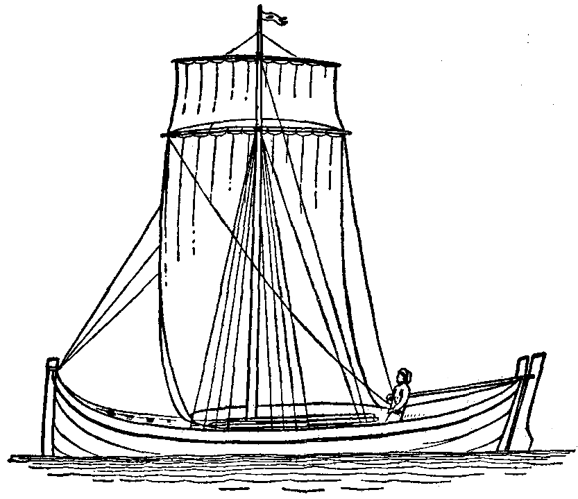 Nordland Boat, fig 3 from article on rigging, 1911 Enc. brit.